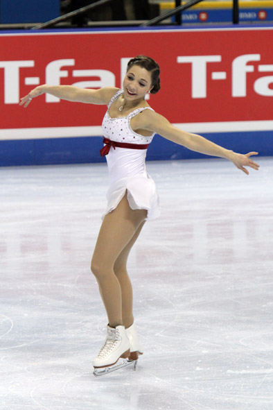 Jessica Dubé as singles at the 2011 Canadian Figure Skating Championships.